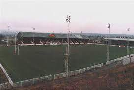 Fartown main stand and covered terrace